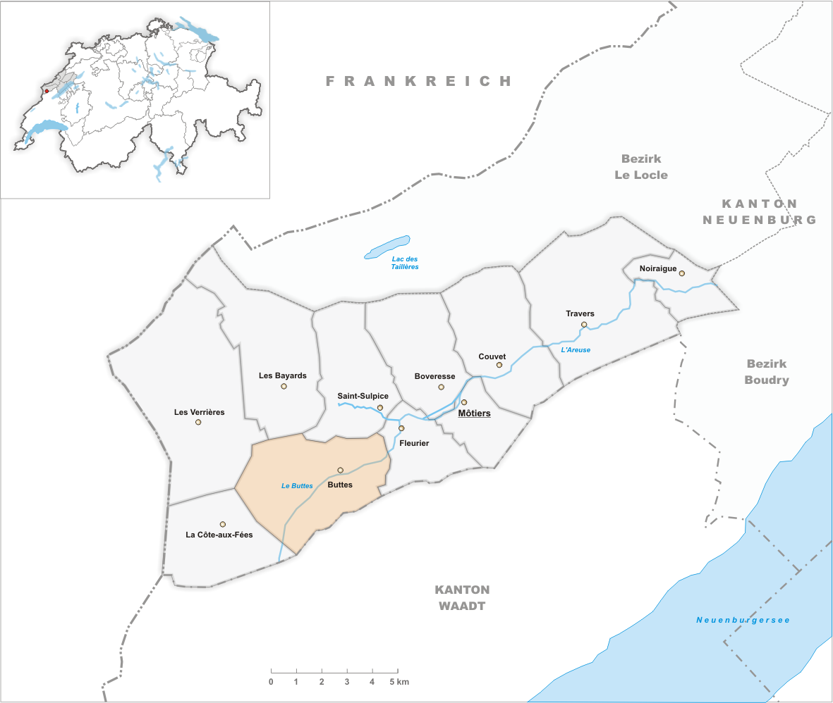 Municipality Buttes